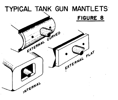 Few types of tank gun mantlets